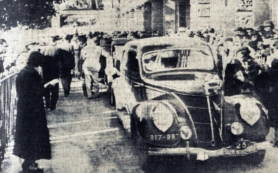 Entry #25 at the 1937 Rallye Monte Carlo was ladies Germaine Rouault and Rodrigue in a 3,622 ccm Matford (kind of Ford V8). They ended 36 overall.[1]